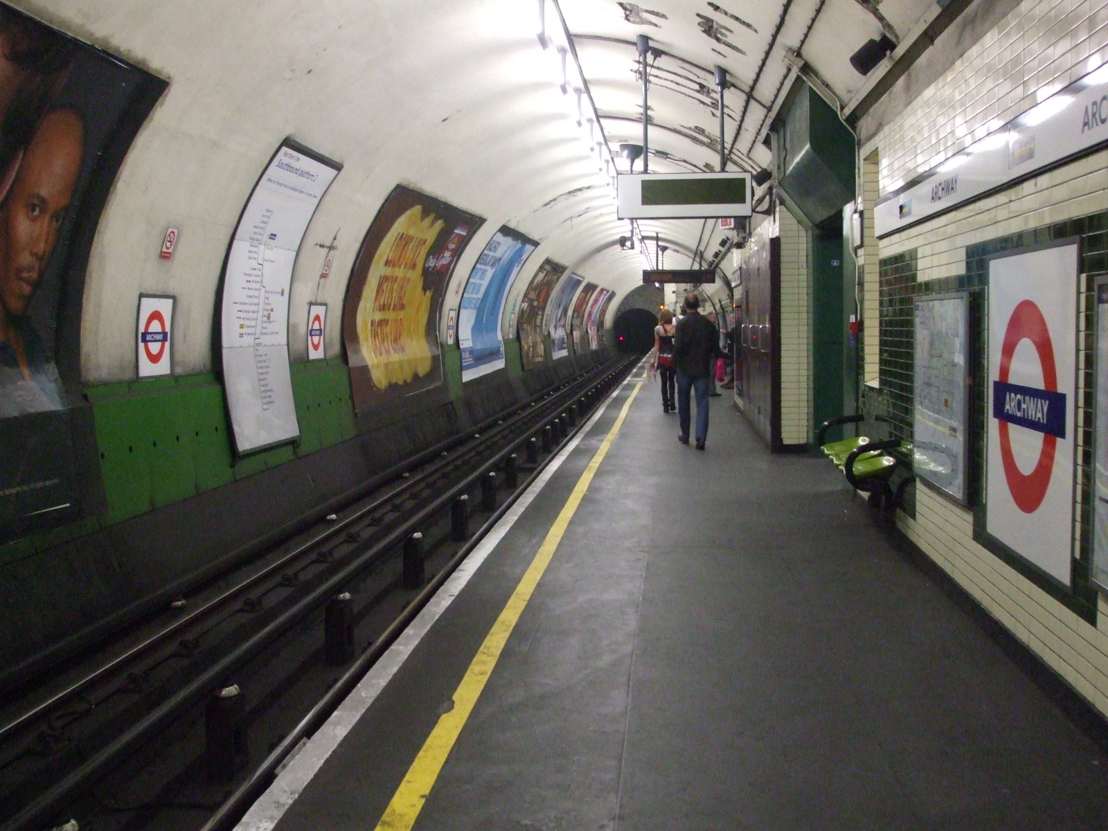 Archway tube station southbound platform looking south